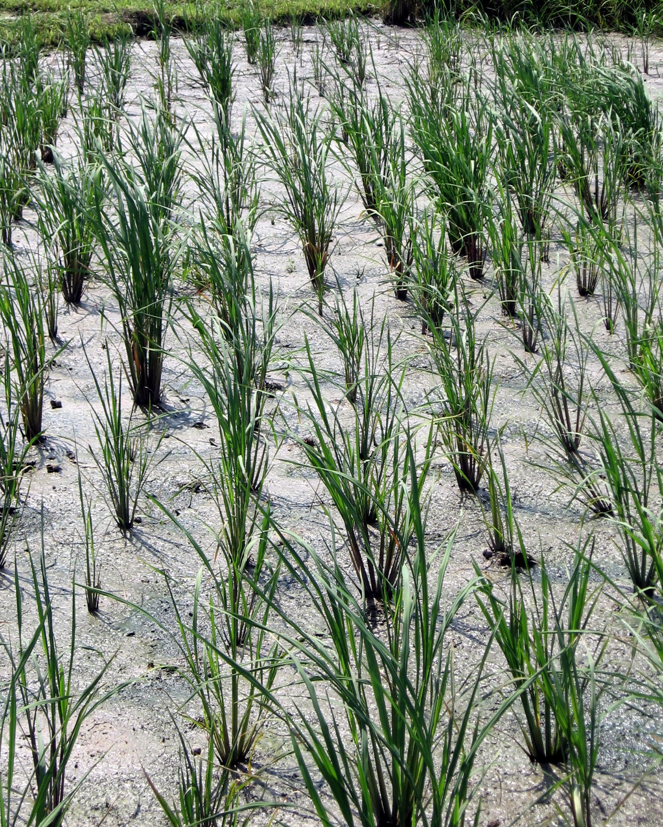 A population of rice plants with genetic variation for rhizomes and other traits. Rhizome genes were donated by Oryza longistaminata through wide hybridization. These plants were in a rice breeding nursery belonging to the Yunnan Academy of Agricultural Sciences near Sanya, Hainan Province, PRC.